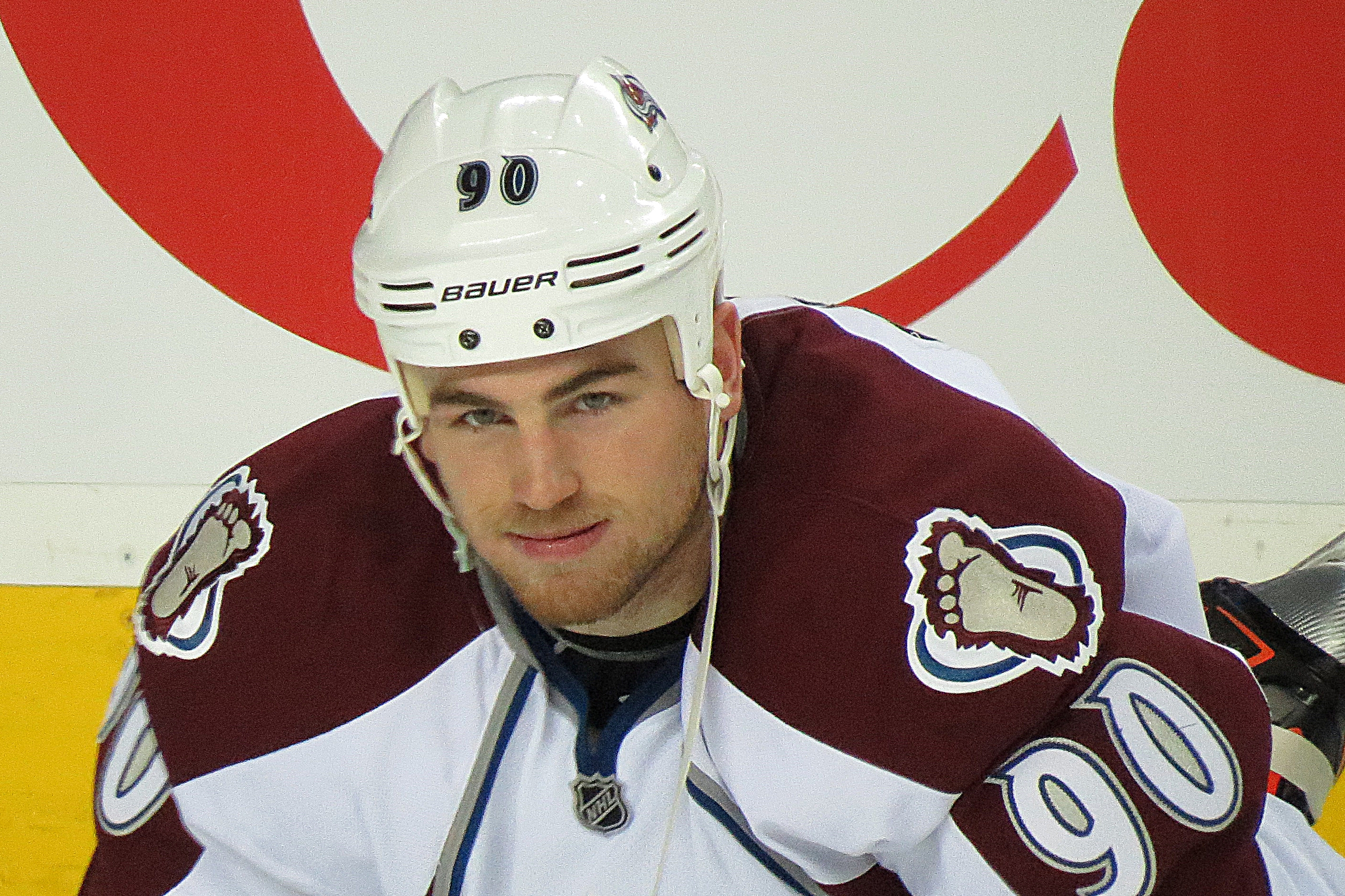 Ryan O’Reilly of the Colorado Avalanche during the 2013–14 season.